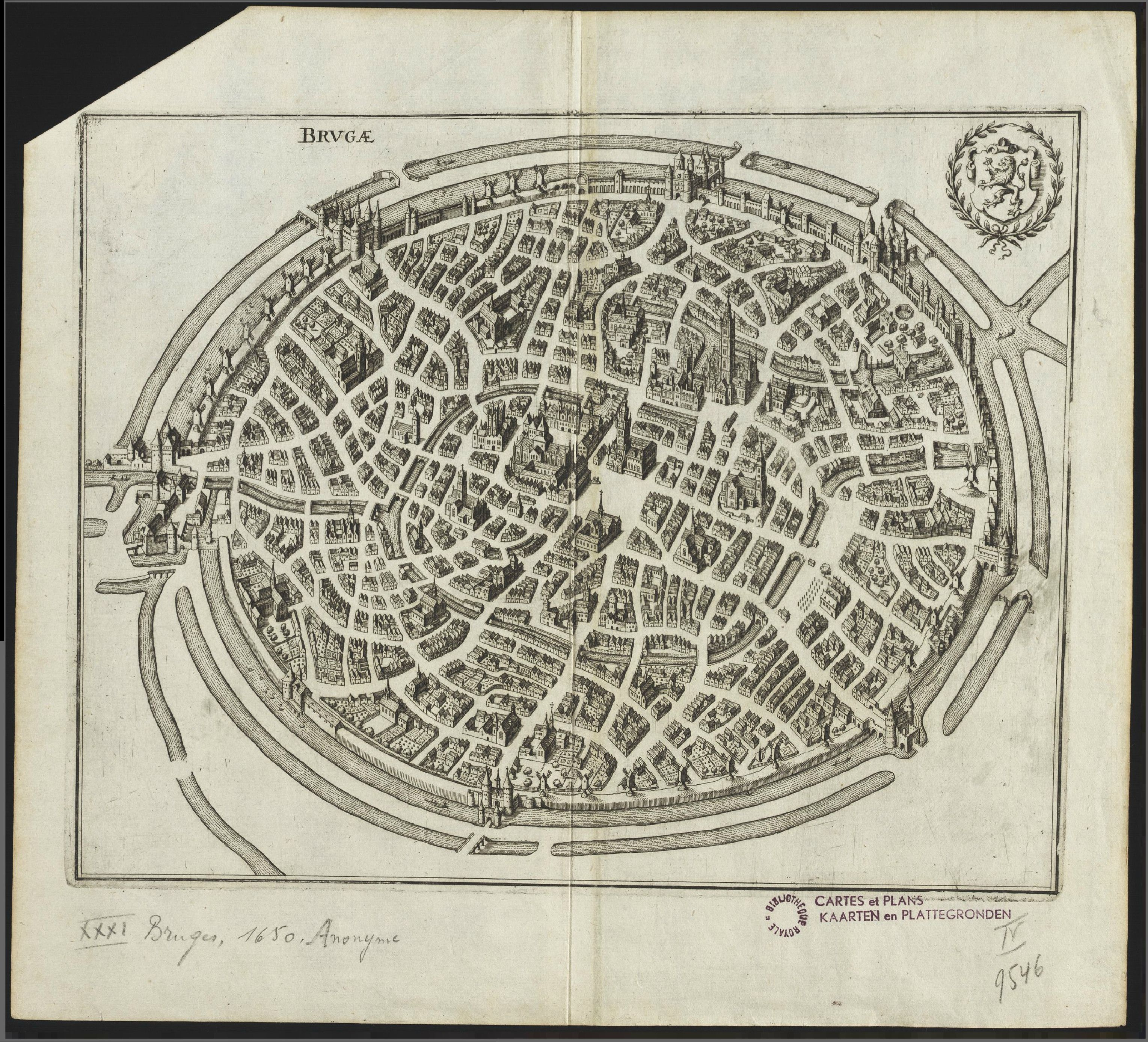 anoniem stadsplan van Brugge uit 1650